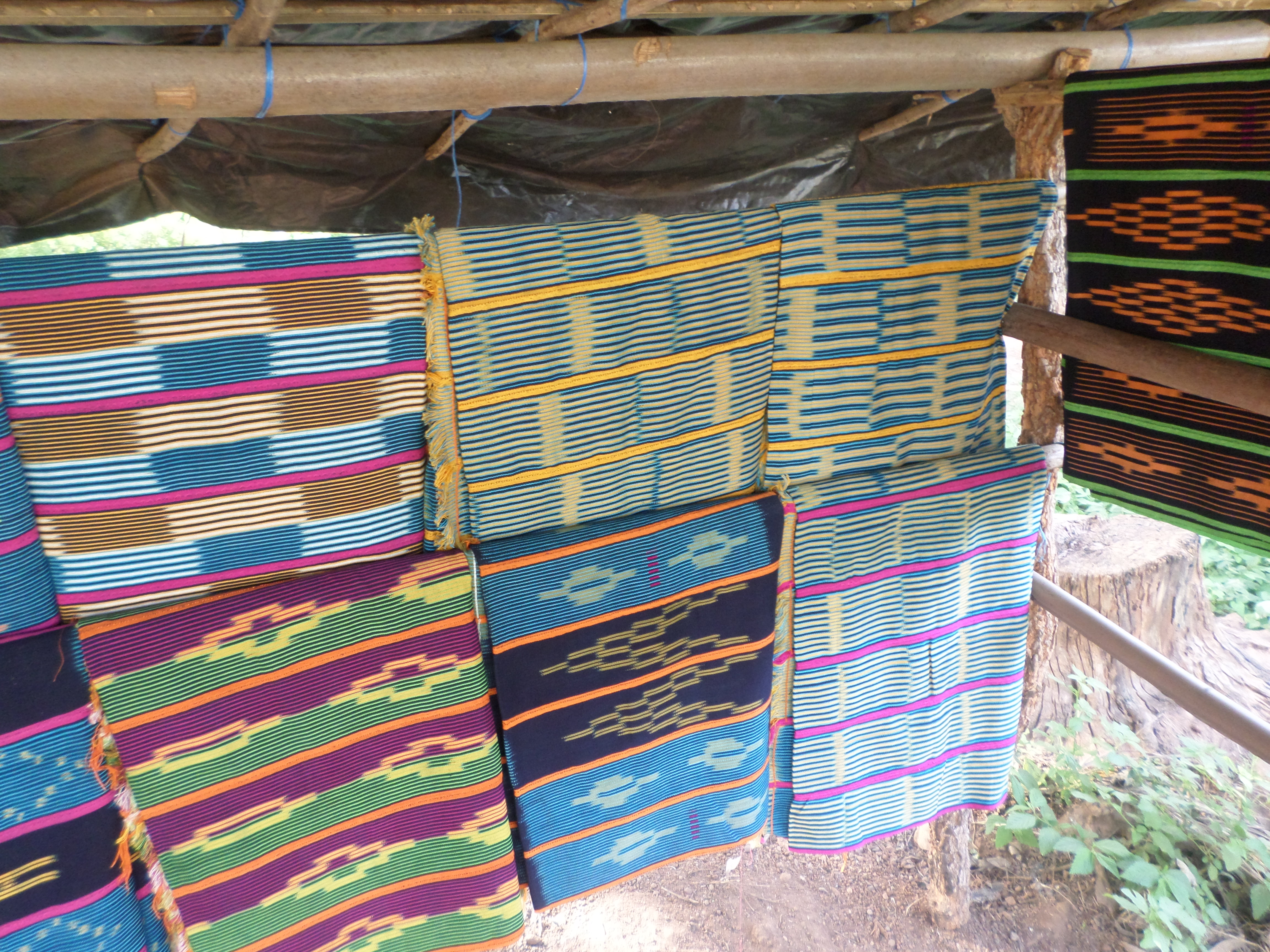 This is an image of Cultural Fashion or Adornment from Côte d'Ivoire